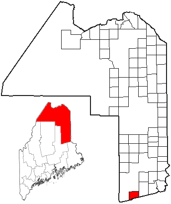 Adapted from U.S. Census Bureau maps (American FactFinder) and Wikipedia's ME county maps by Bumm13.